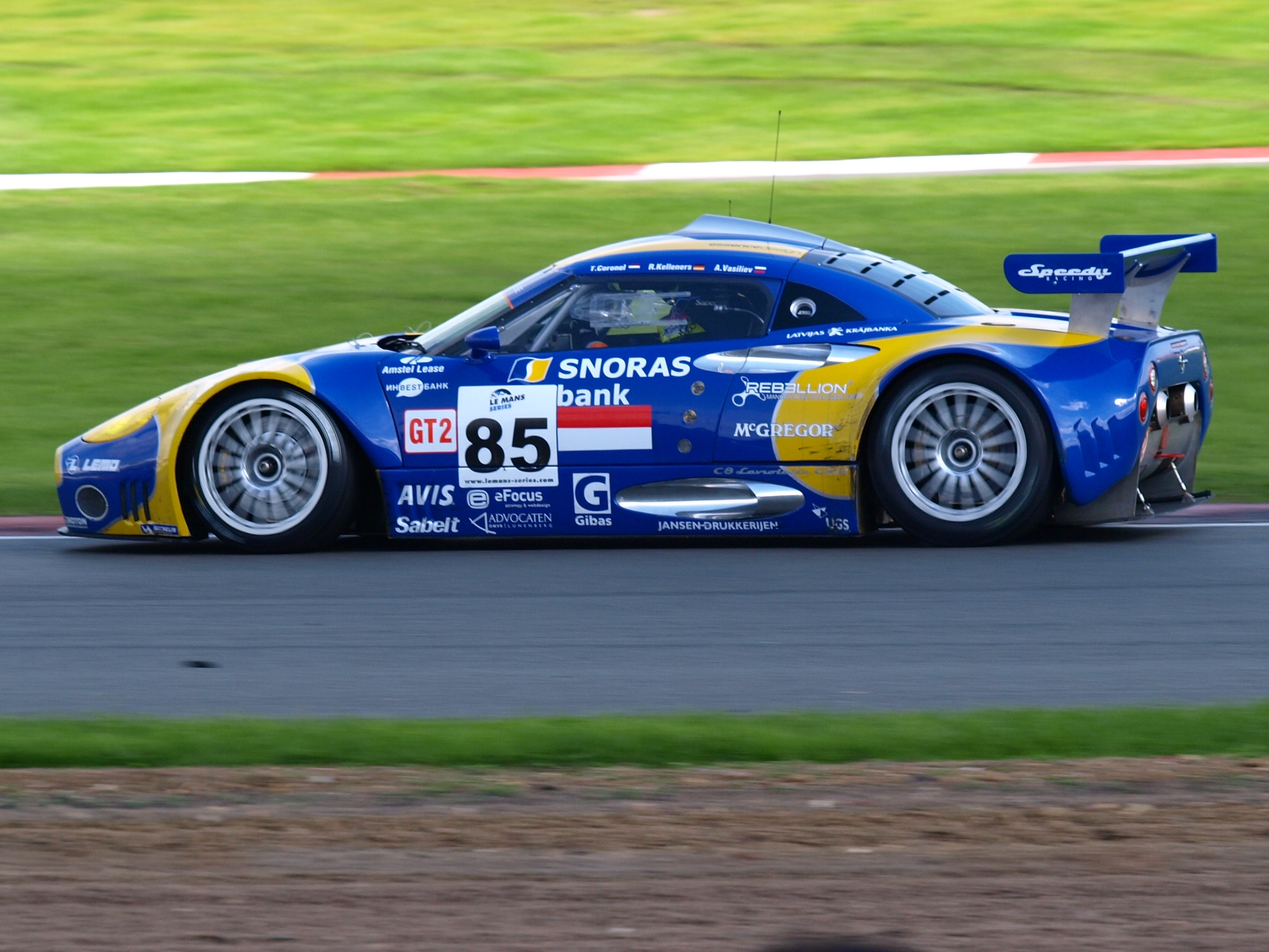 Snoras Spyker Squadron's Spyker C8 Laviolette GT2-R at the 2008 1000km of Silverstone.